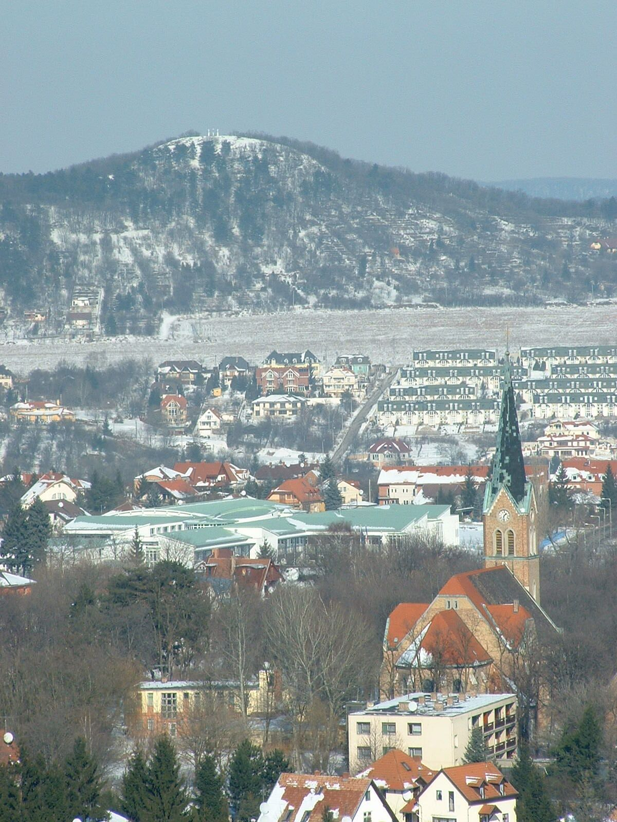 Máriaremete in 2008 with basilica